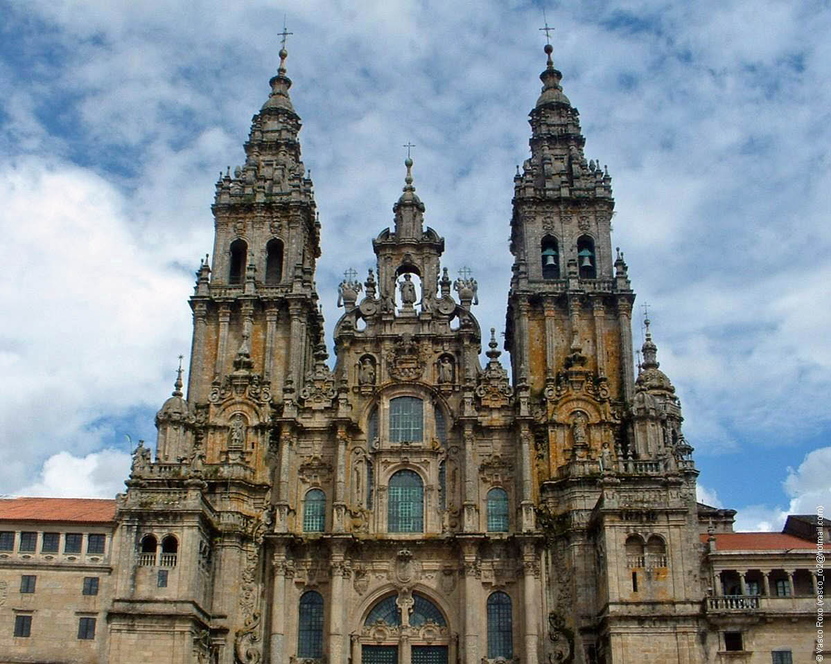 The Obradoiro façade of the Cathedral of Santiago de Compostela, Santiago de Compostela, Galicia, Spain.